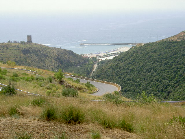 Panorama from the road to Lentiscosa